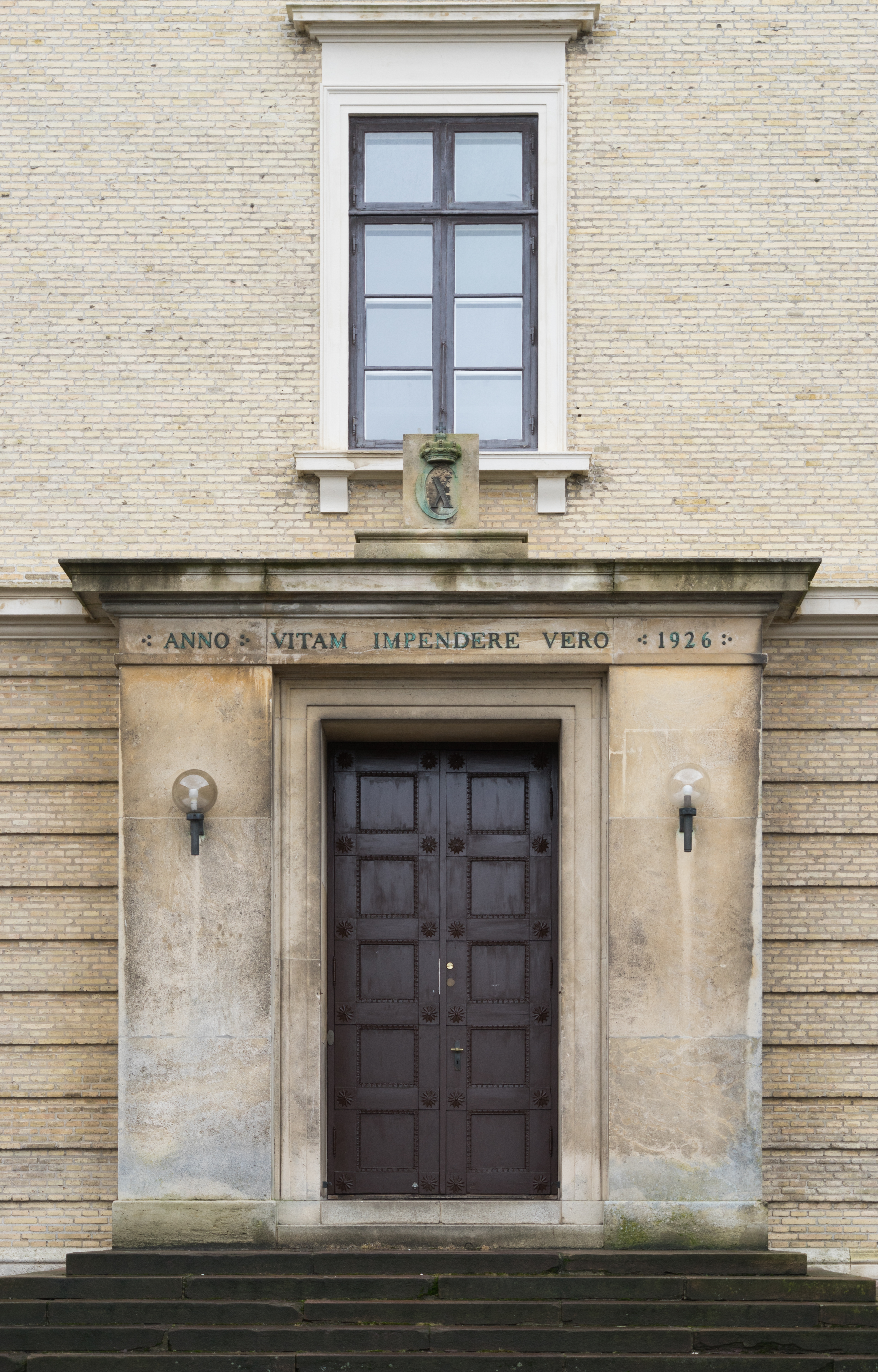 The main entrance door of the Viborg Katedralskole, Denmark."Vitam impendere vero" is a quote by Juvenal and means "to give his life for the truth".